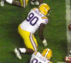 At the 2011 LSU vs Alabama game